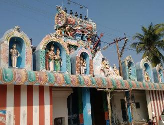 Thanjavur Kurichistreet subramaniar temple தஞ்சாவூர் குறிச்சித்தெரு முருகன் கோயில்